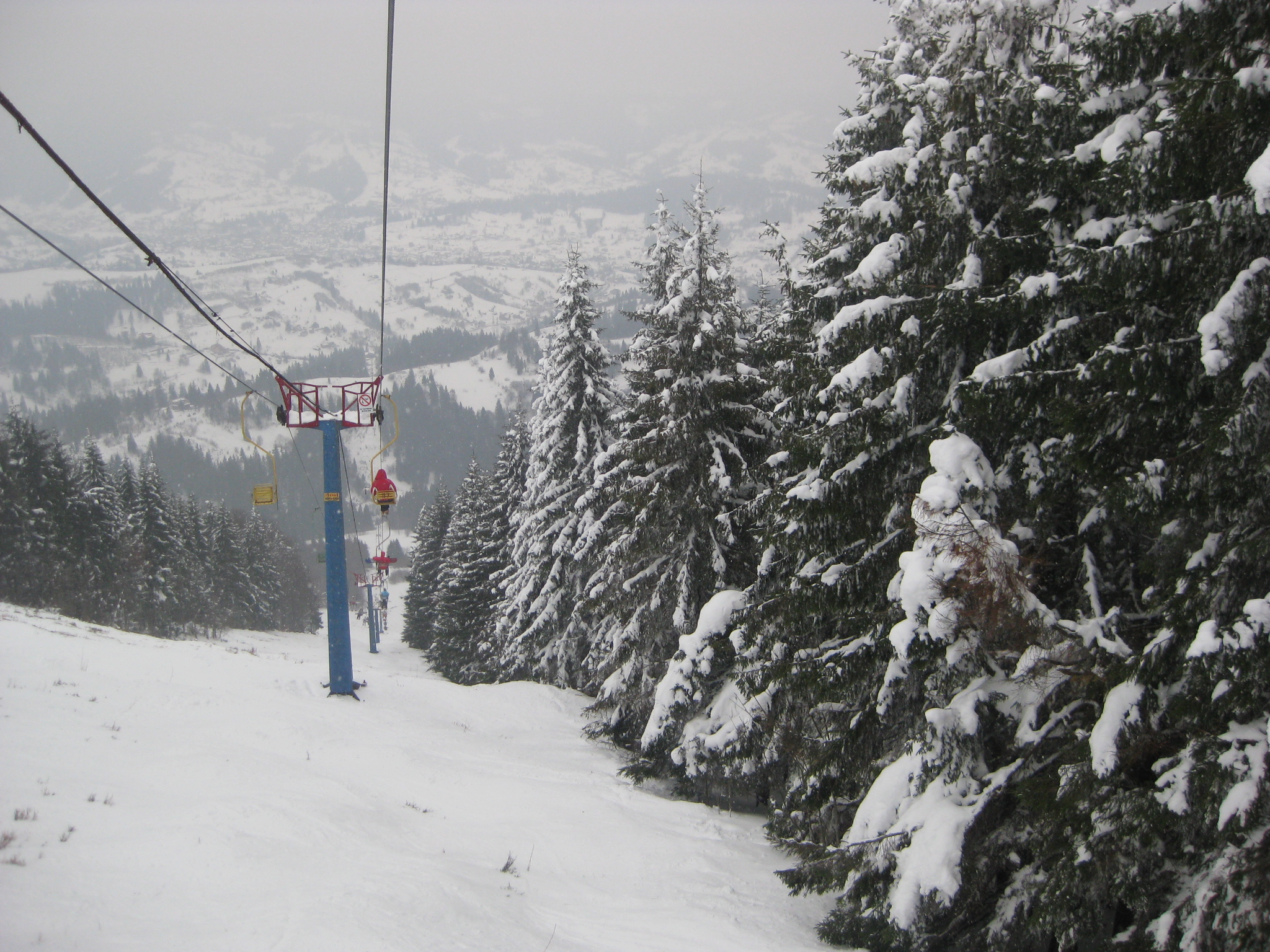 Cableways in Slavs`ke